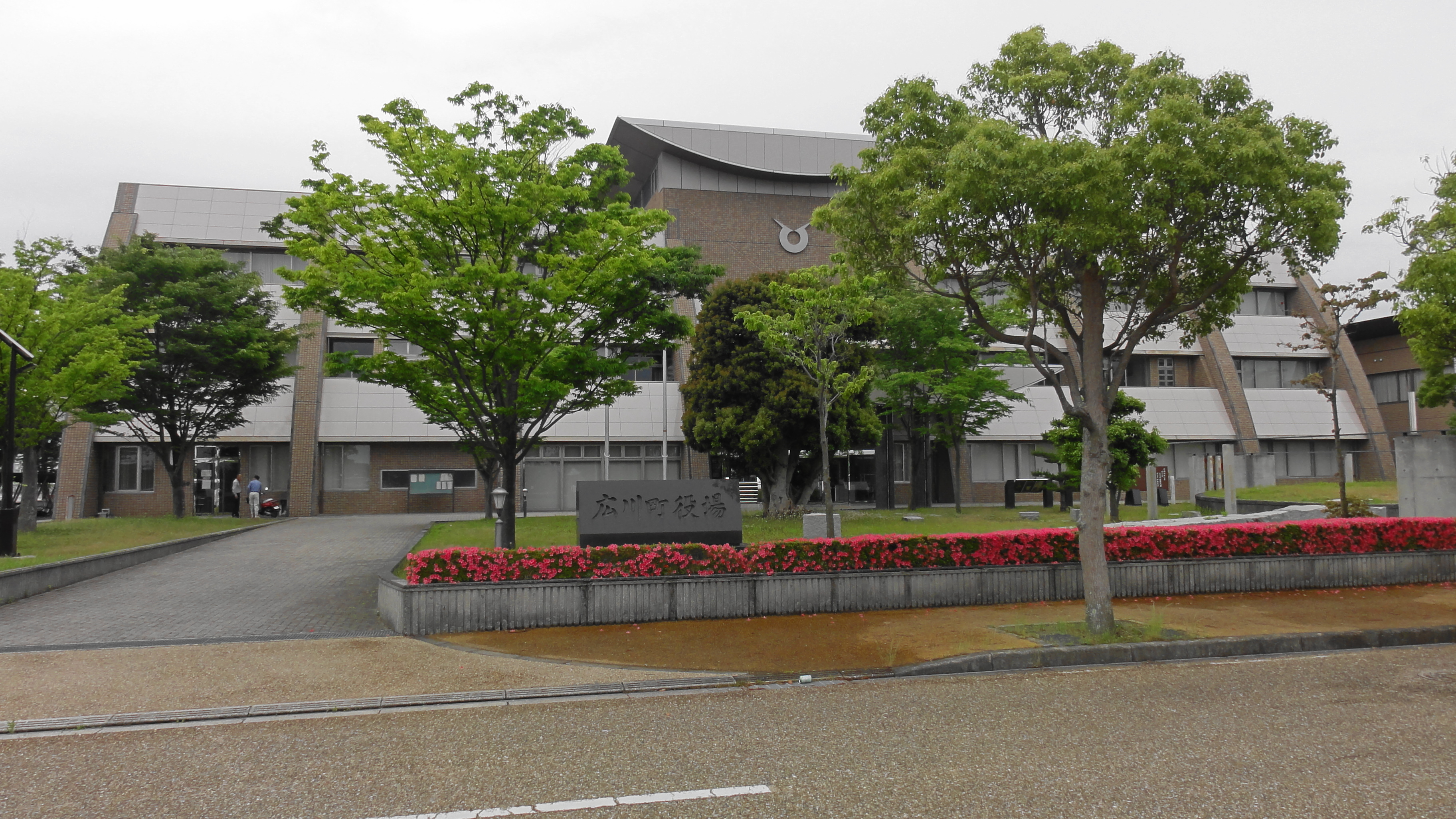 Hirogawa town office,Wakayama prefecture,Japan